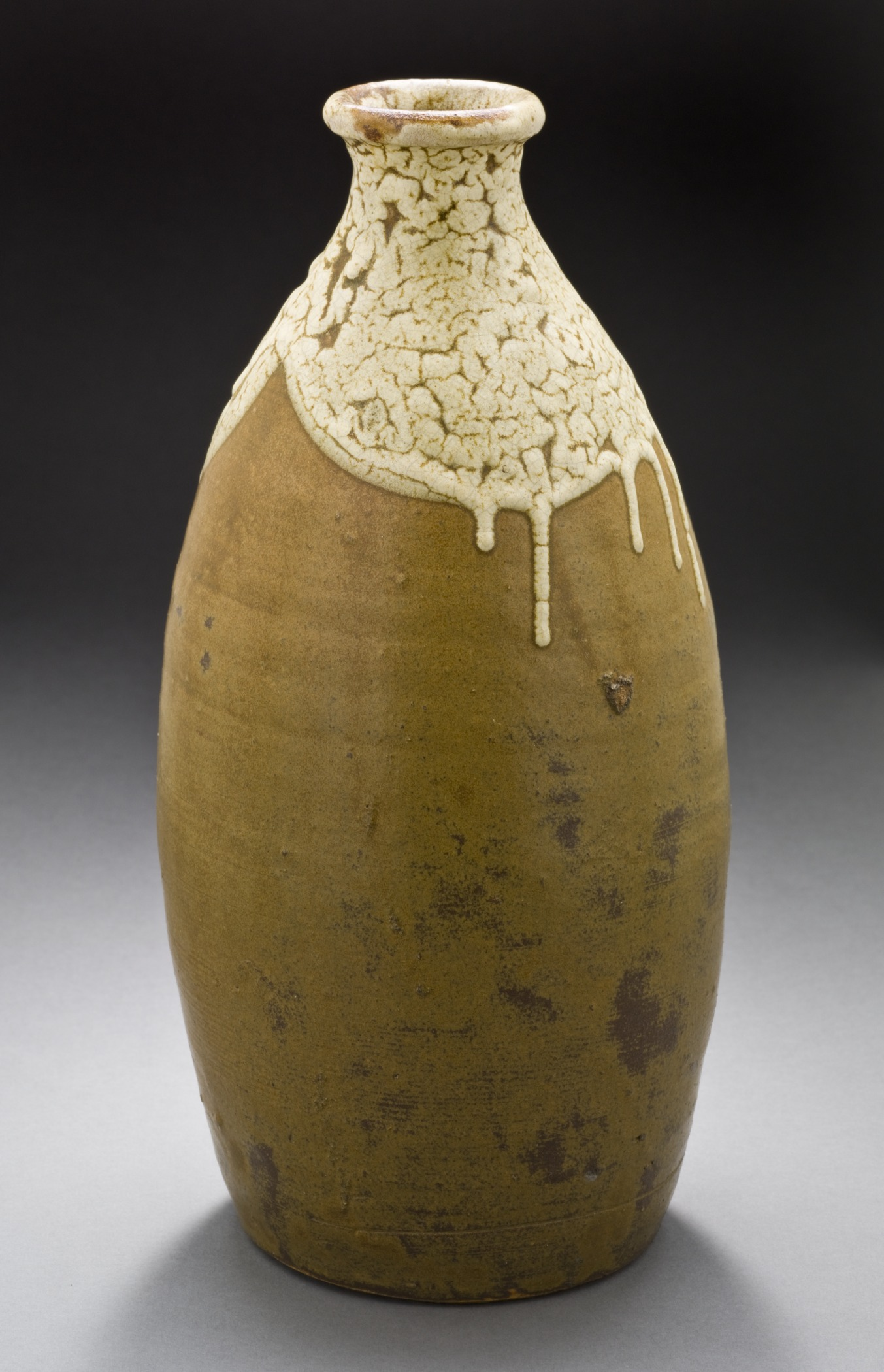 Japan, Edo period (1615-1868), late 18th-early 19th century Alternate Title: Tokkuri Furnishings; Accessories Agano ware; stoneware with iron wash and white glaze Height: 11 in. (27.94 cm); Diameter: 5 3/8 in. (13.65 cm) Gift of James D. and Veronica H. Roorda (M.2006.214.33) Japanese Art